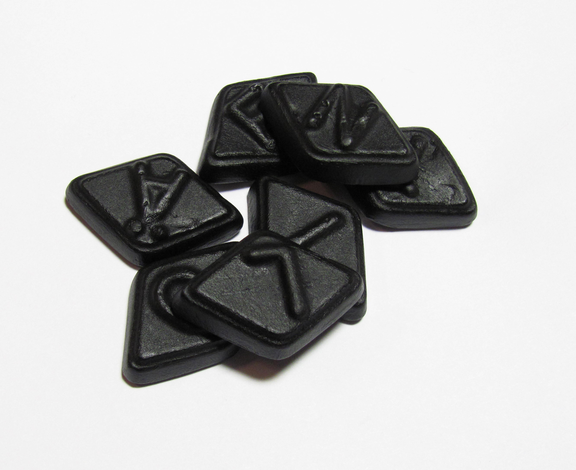 Salmiak alphabets from Malaco